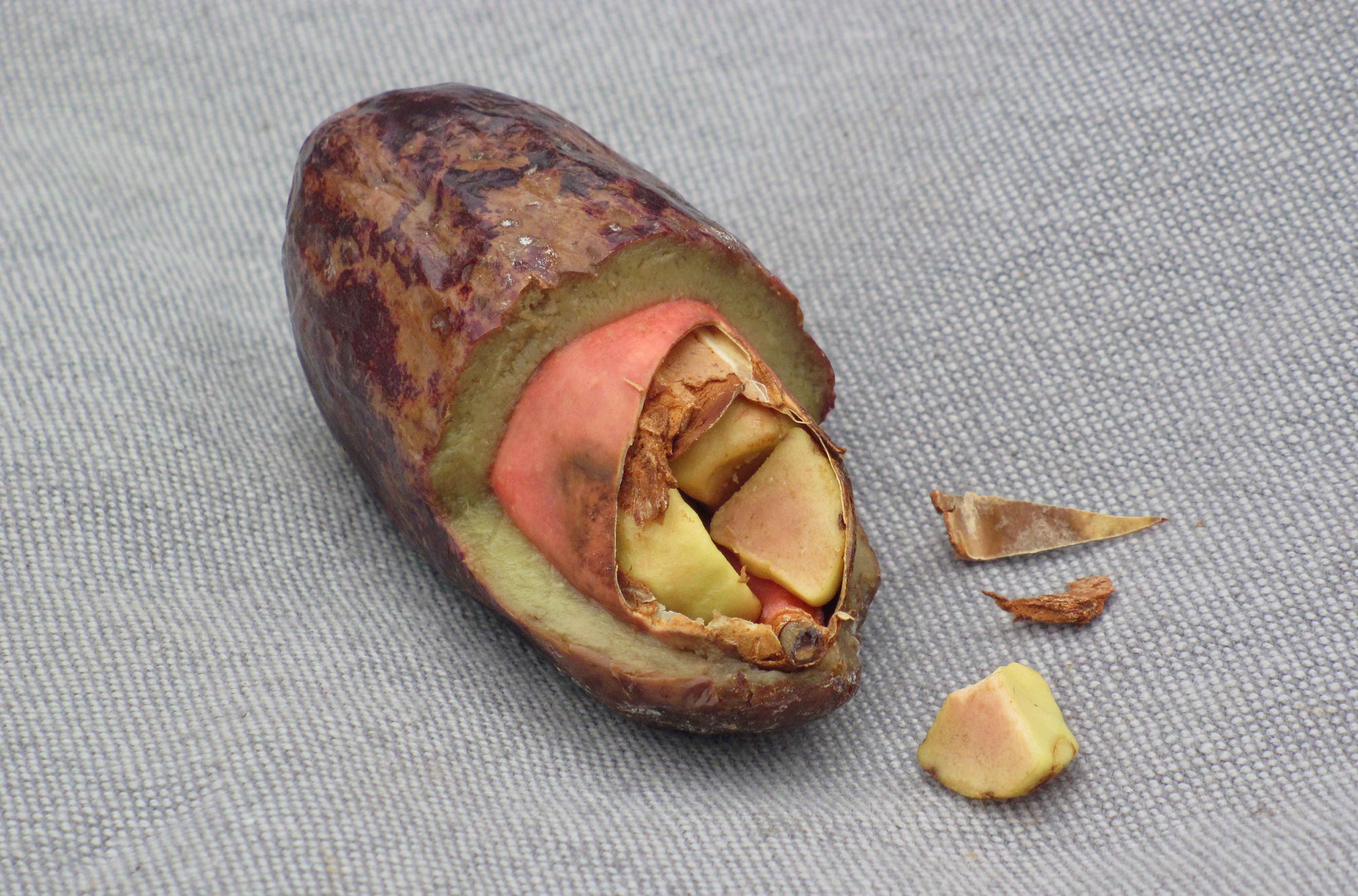 A ripe fruit of the african safou tree (Dacryodes edulis) from near Douala in Cameroon, cut open. The stem joint is on the near end. The outer skin has some small white spots of some (supposedly edible) mould. The edible greenish flesh has a avocado-like consistency. To the right are snippets of the kernel skin, underlying padding material, and a piece of one of the several kernel segments.